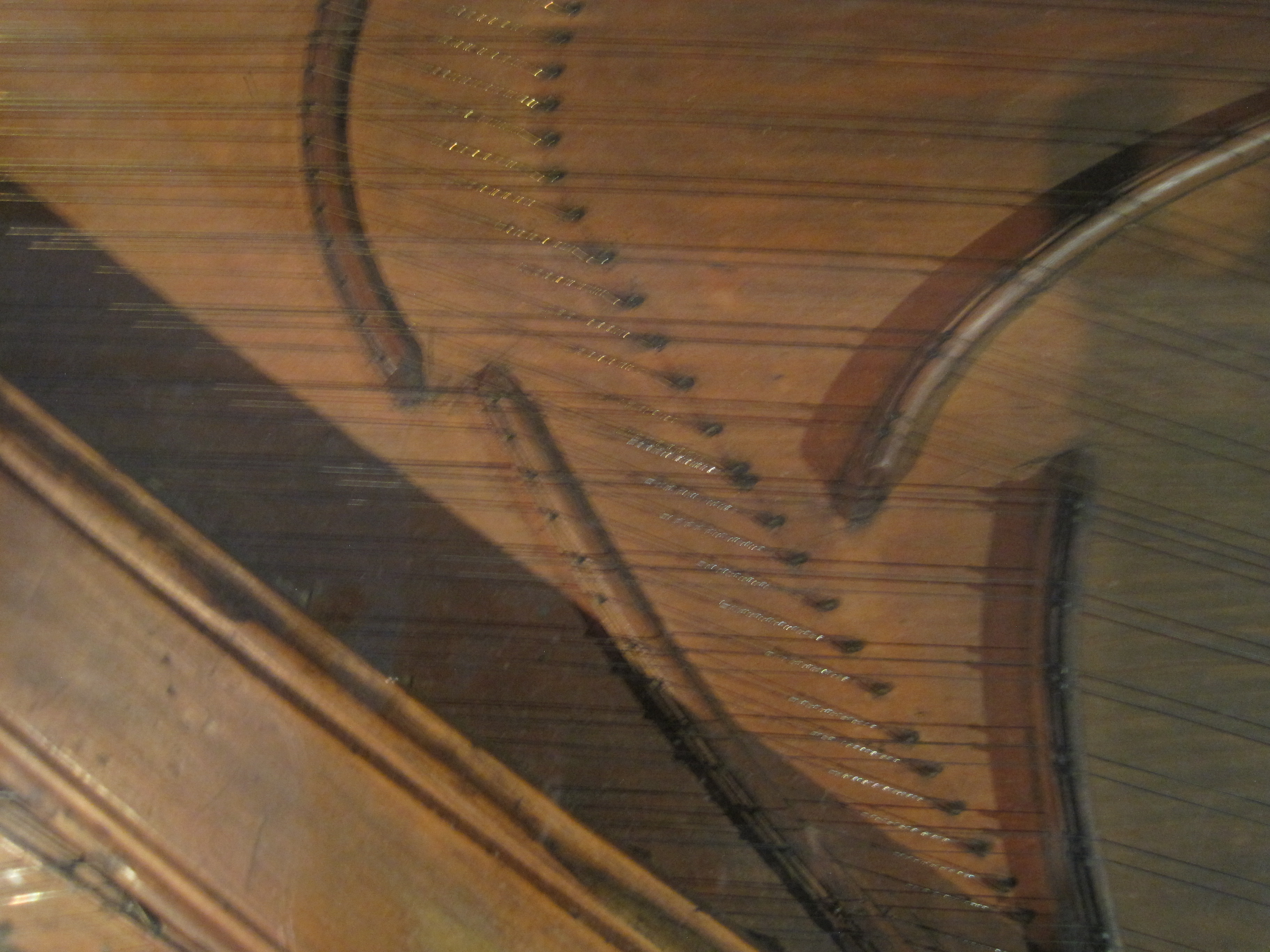 Detail of a spinettone by Bartolomeo Cristofori, kept in the Musical Instrument Museum in Leipzig, Germany. The four bridges are as follows: top left, four-foot bridge for lower strings (brass); top right, eight-foot bridge for lower strings (brass); lower left, four-foot bridge for higher strings (iron); lower right, eight-foot bridge for upper strings (iron)